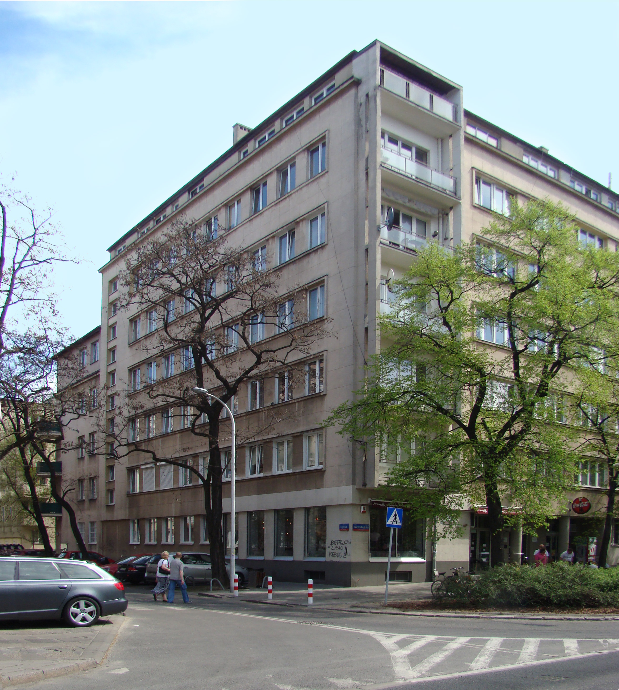 Tenement house, Warsaw, Aleja Niepodległości 130, architect Lucjan Korngold